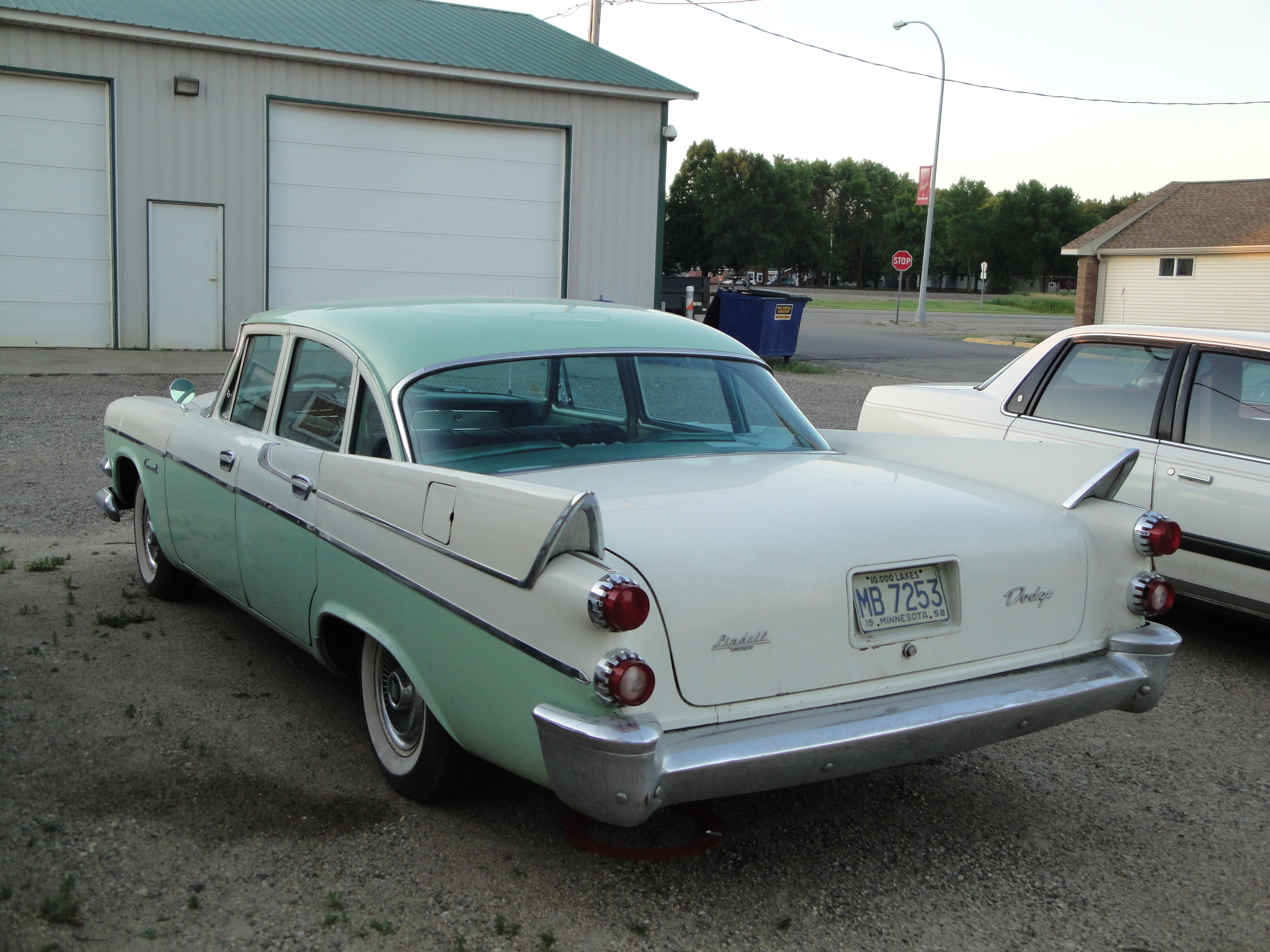 58 Dodge Coronet